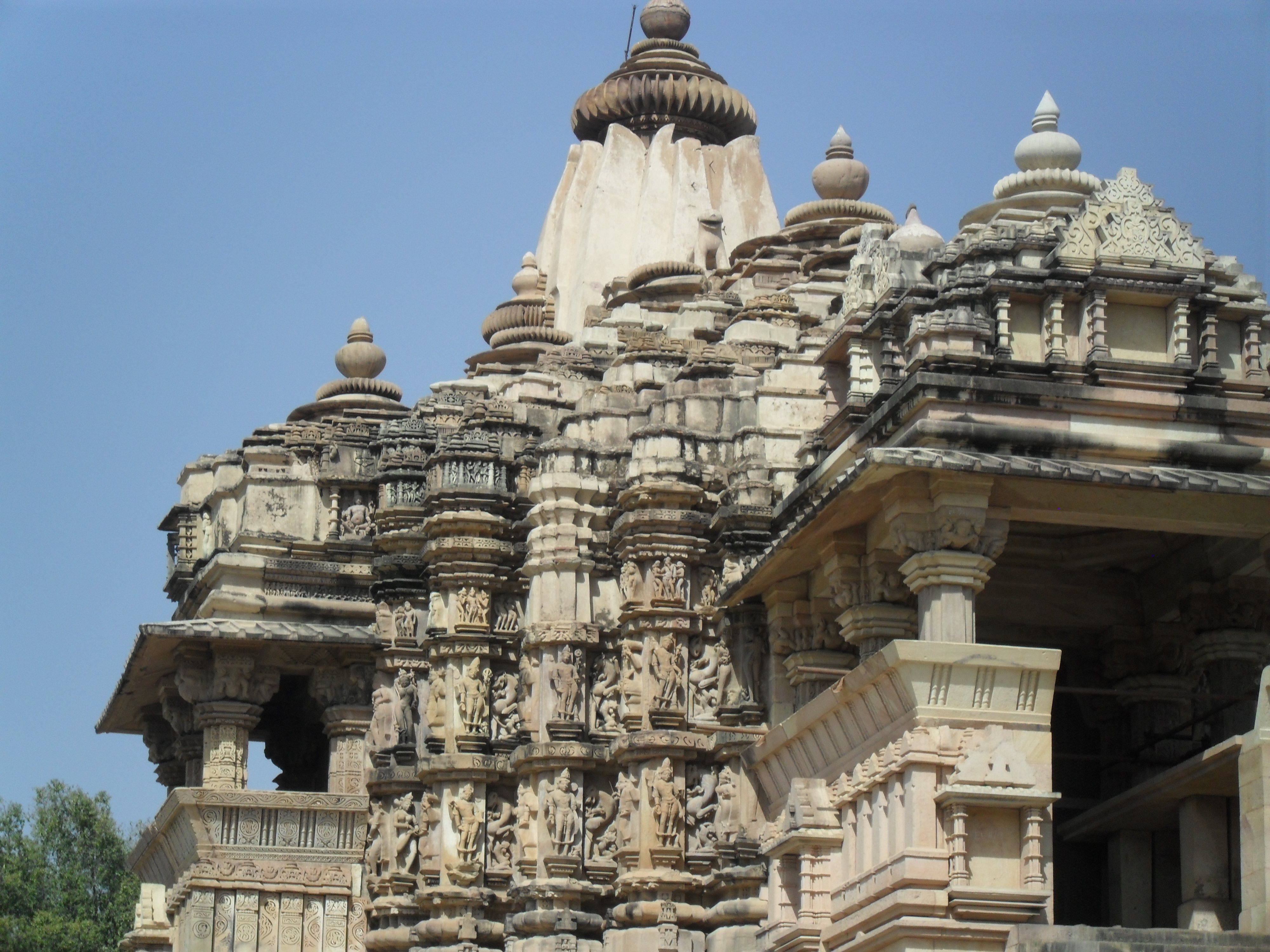 Khajuraho India, Chitragupta Temple , Front View